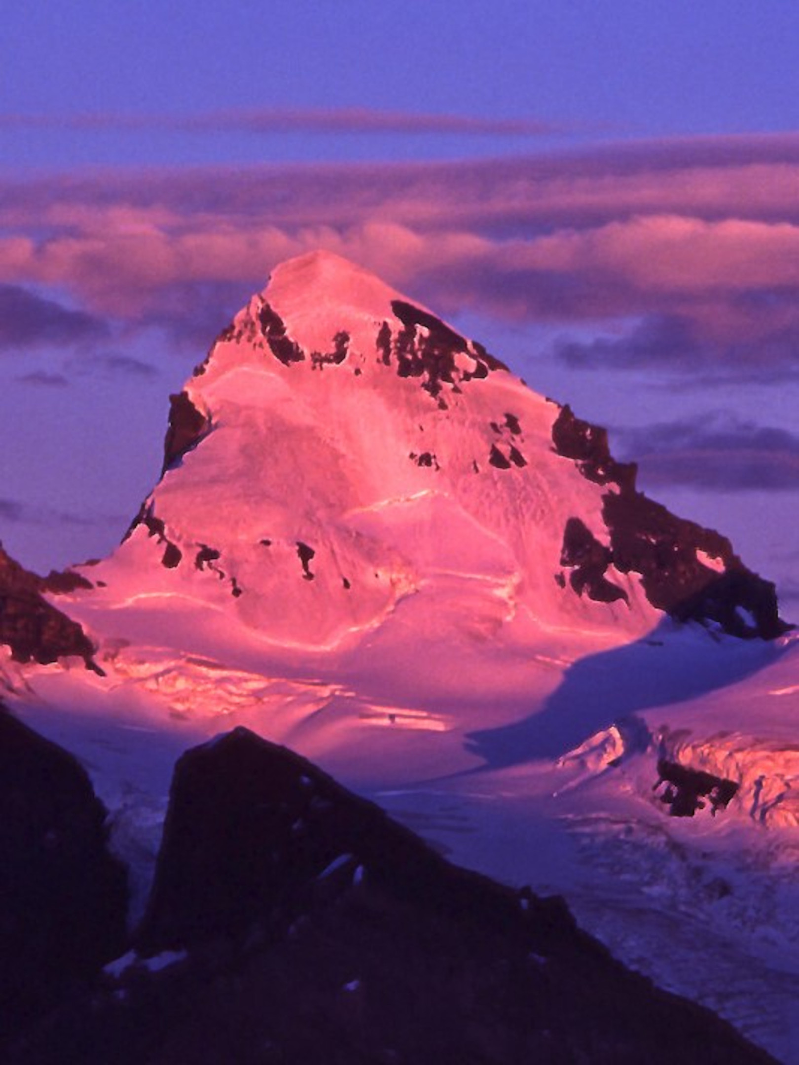 Mt. Forbes in Alpenglow, as seen from Arctomys Peak. The normal route is up the North Glacier (barely visible from the lower right corner) to a point about in the centre of the base of the NW face, and diagonally right up to the West ridge, and then follow the ridge (or 20 metres inside of it) to the summit. This shark-toothed shape mountain is: "A striking peak that is predominantly seen from many parts of the range. The normal route, the NW face and the N Ridge all are well worth climbing."[1] Arctomys is an easy walk up from one of the usual Mt. Lyell bivys (at the Lyell Icefield / Arctomys Peak col).